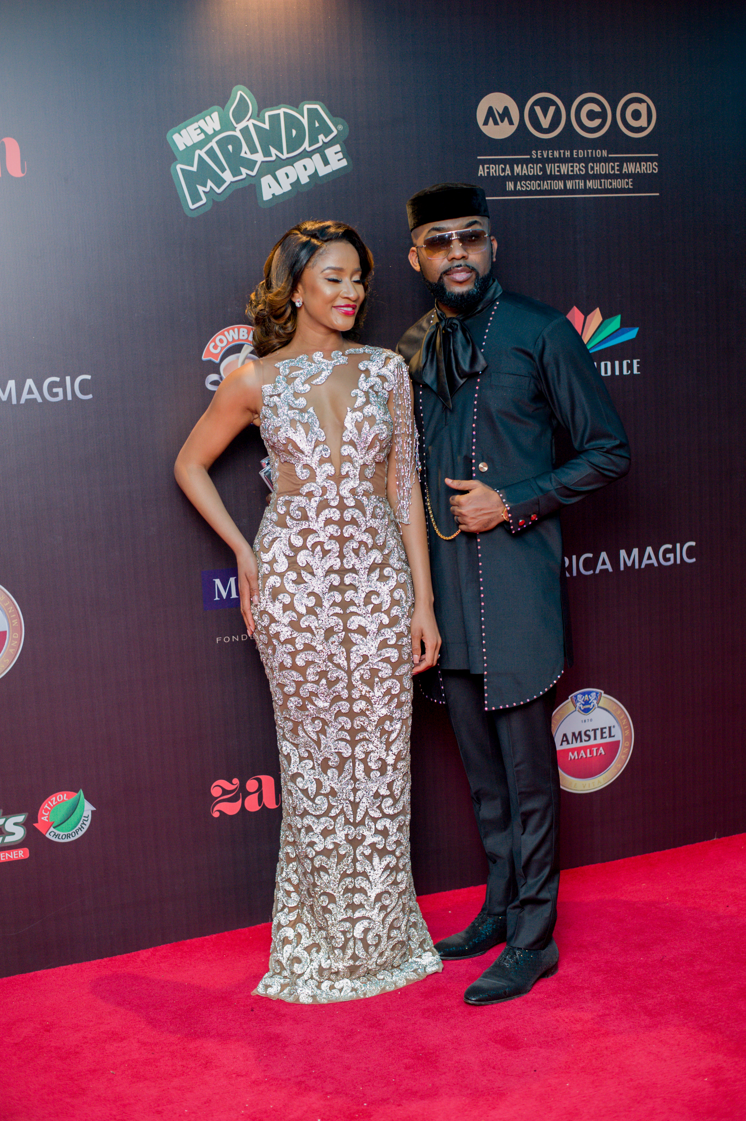 Pictures from AMVCA 2020